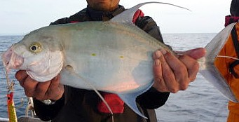 Carangoides orthogrammus, Solomon Islands